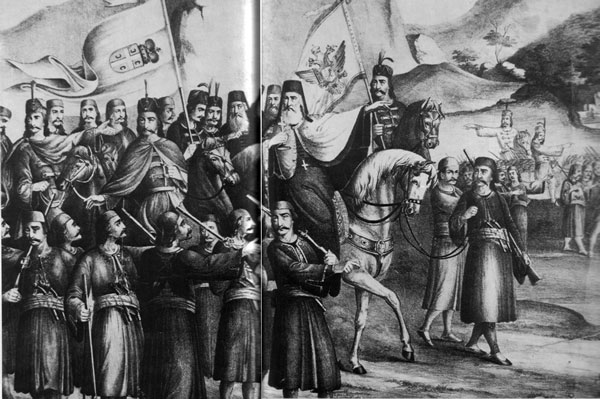 Migration of the Serbs. lithography. P. Čortanović. ca. 1862.